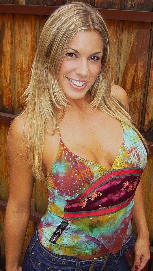 Brazilian TV Celebrity Joana Prado.